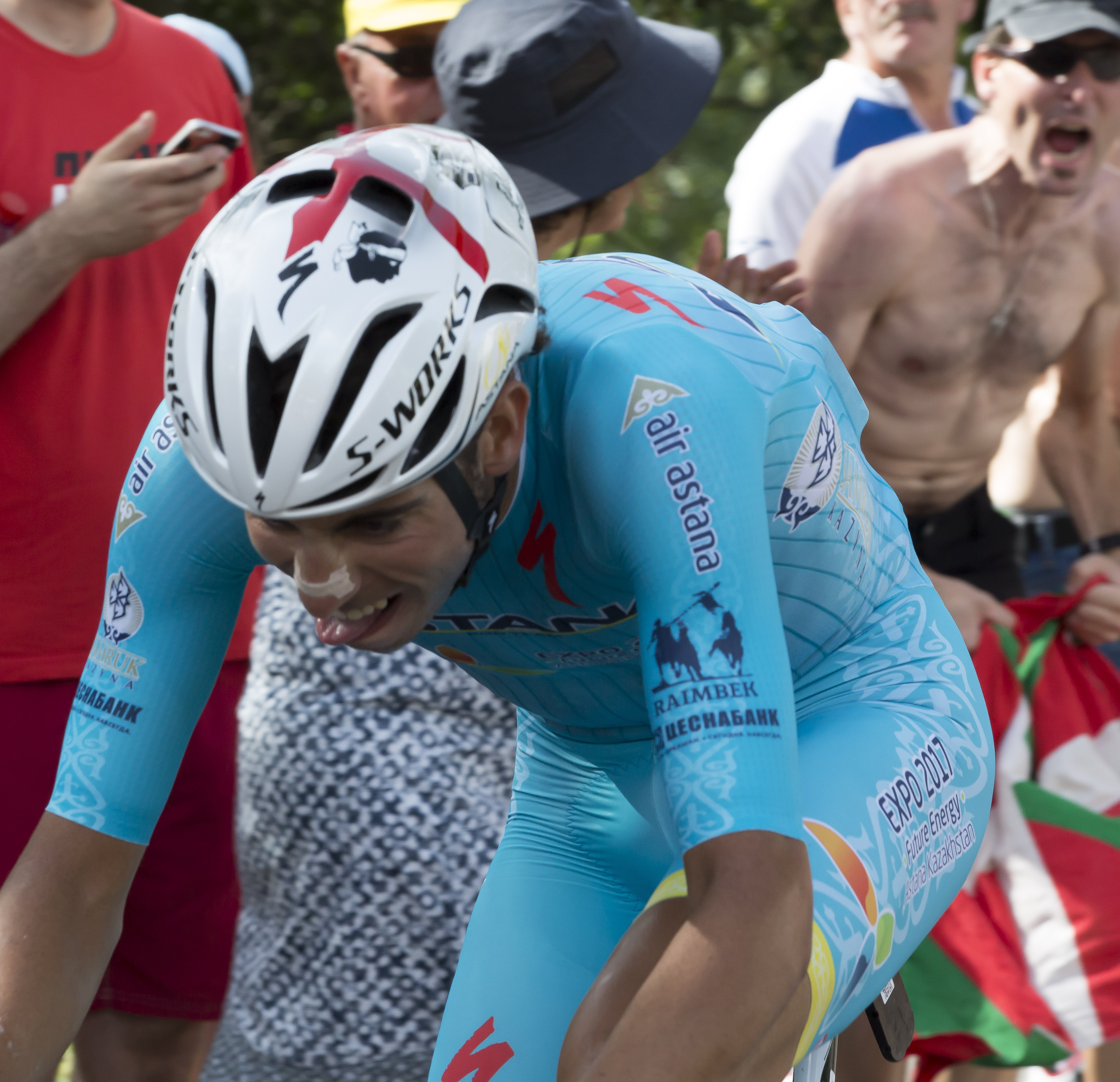 Stage 18 - Sallanches to Megève